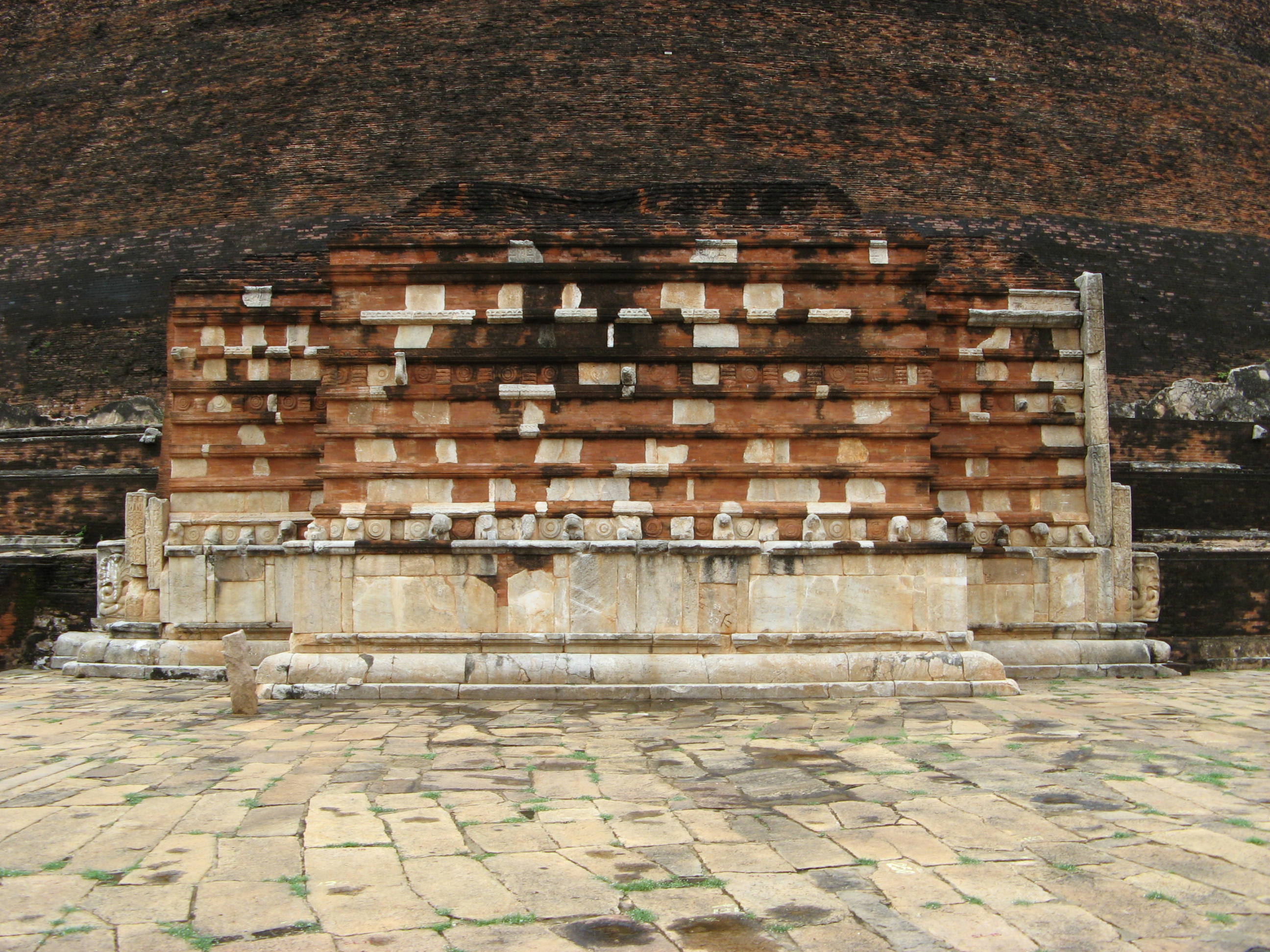 The south vahalkada (entrance structure) has been partially restored, as seen here. Its base is topped by a row of elephants that symbolically support the structure on their backs, with guardstones on either side.